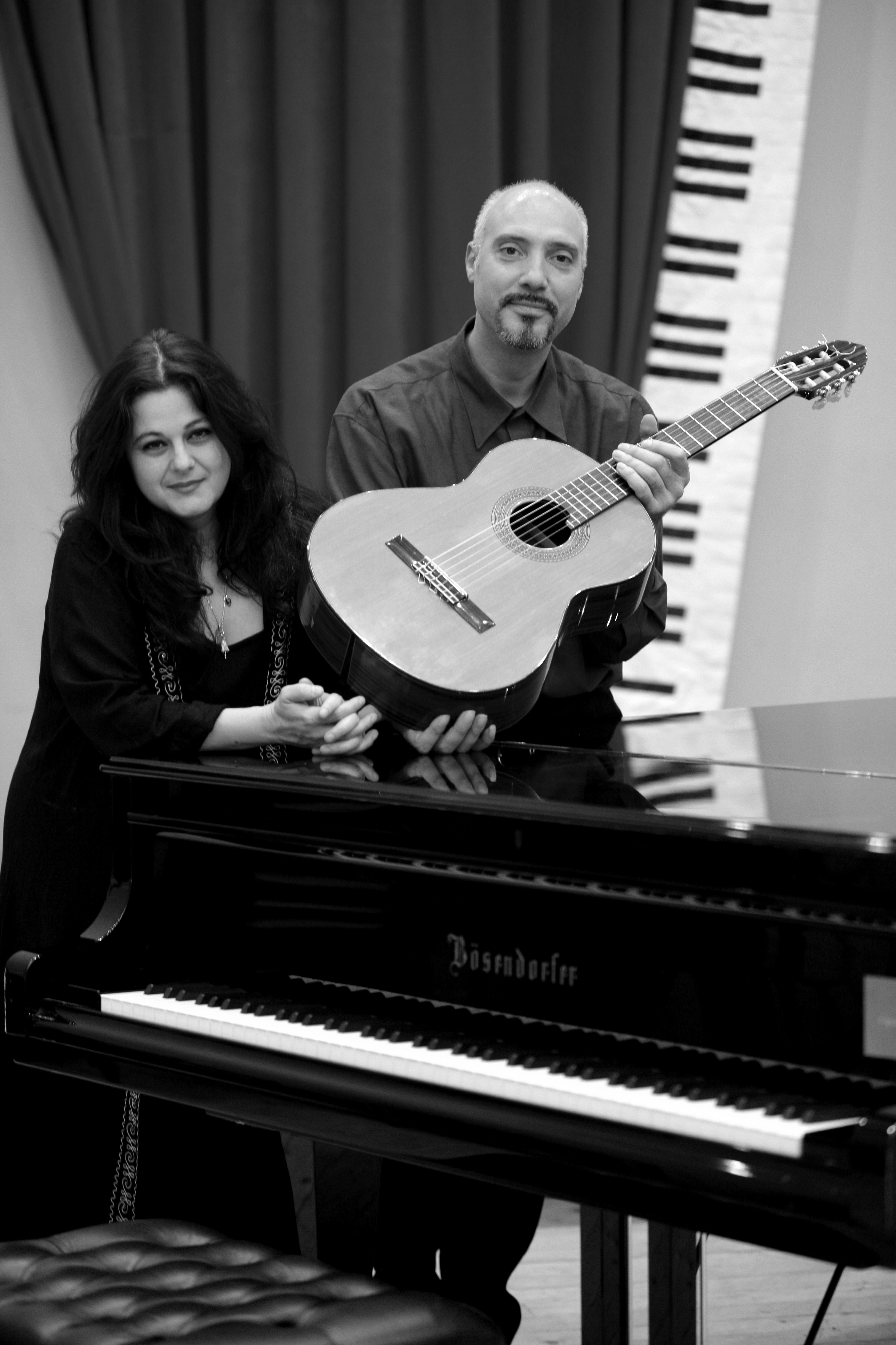 The only Bulgarian piano and guitar duo